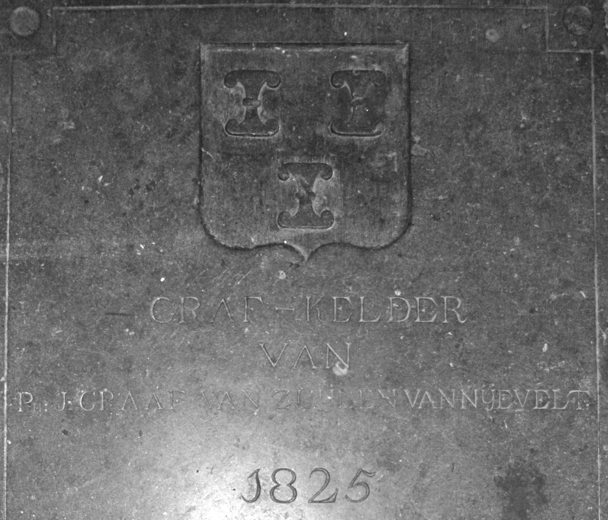 Floorslab of Philips Julius van Zuylen van Nyevelt